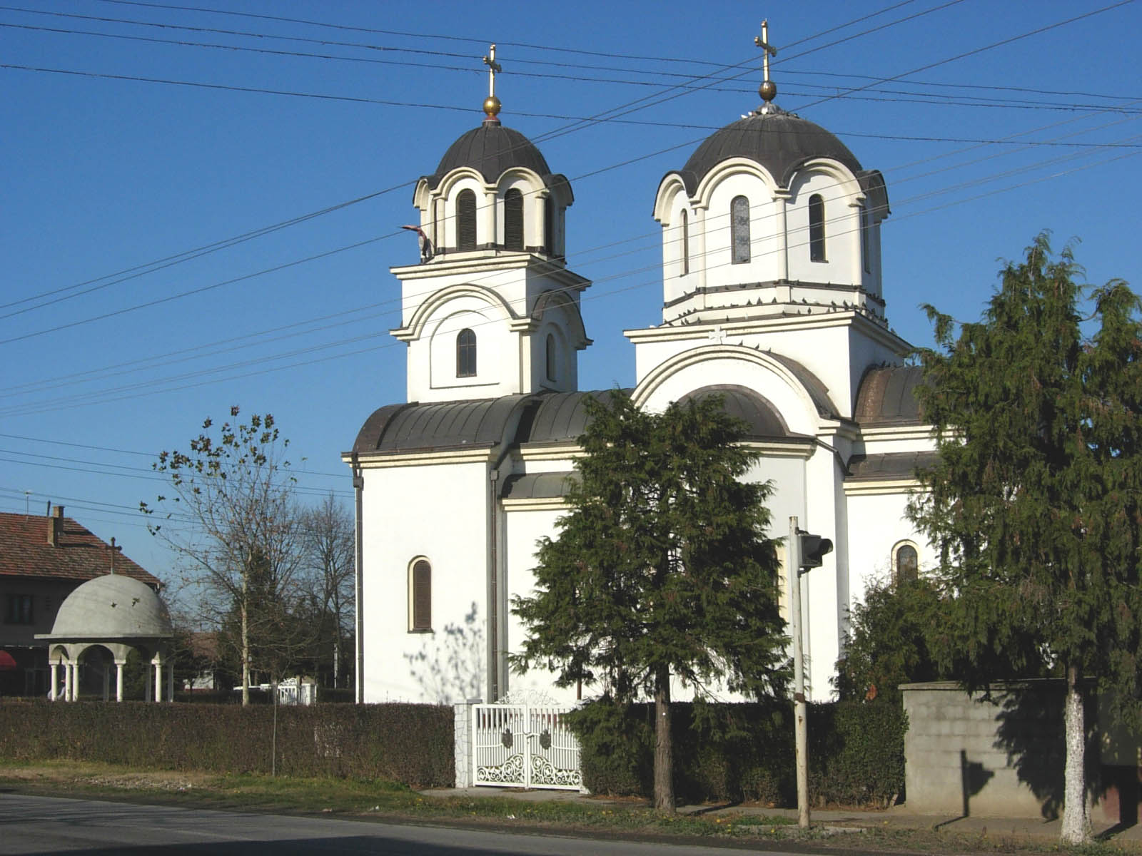 The new Orthodox church in Hrtkovci.